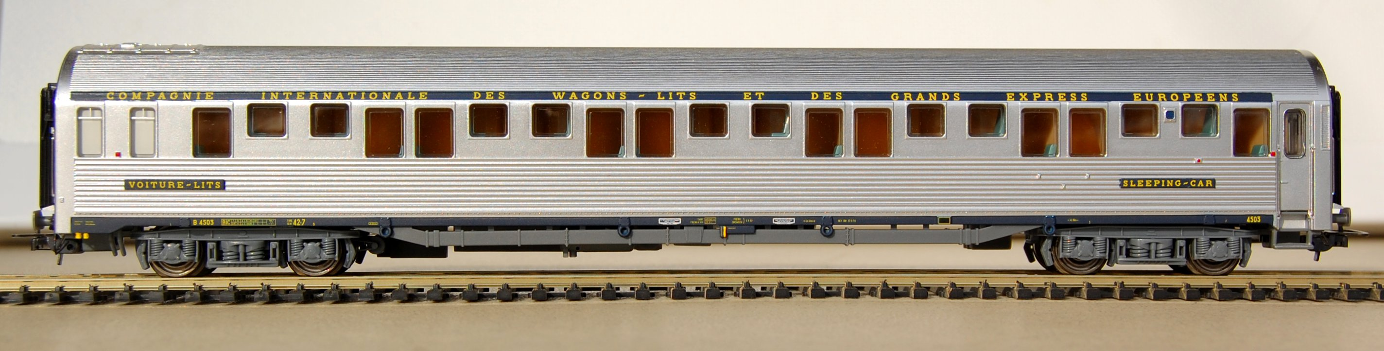 Sleeping car CIWL WLA type P ; scale model by LS Models